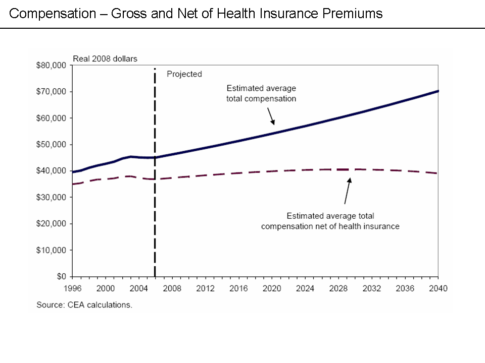 Compensation - Gross and Net of Health Insurance Premiums Explanation Employers think about the total compensation cost of employees and that calculation considers what they pay in health insurance premiums, in addition to salaries and wages. Since insurance premiums continue to grow rapidly, this cost is increasingly replacing other forms of compensation. The Council of Economic Advisors predicts that eventually wages will actually be reduced in real (inflation-adjusted) terms as the increase in insurance premiums will require reductions in non-insurance compensation. Health insurance premiums are thus a cause of salary and wage growth stagnation for much of the population in the U.S.